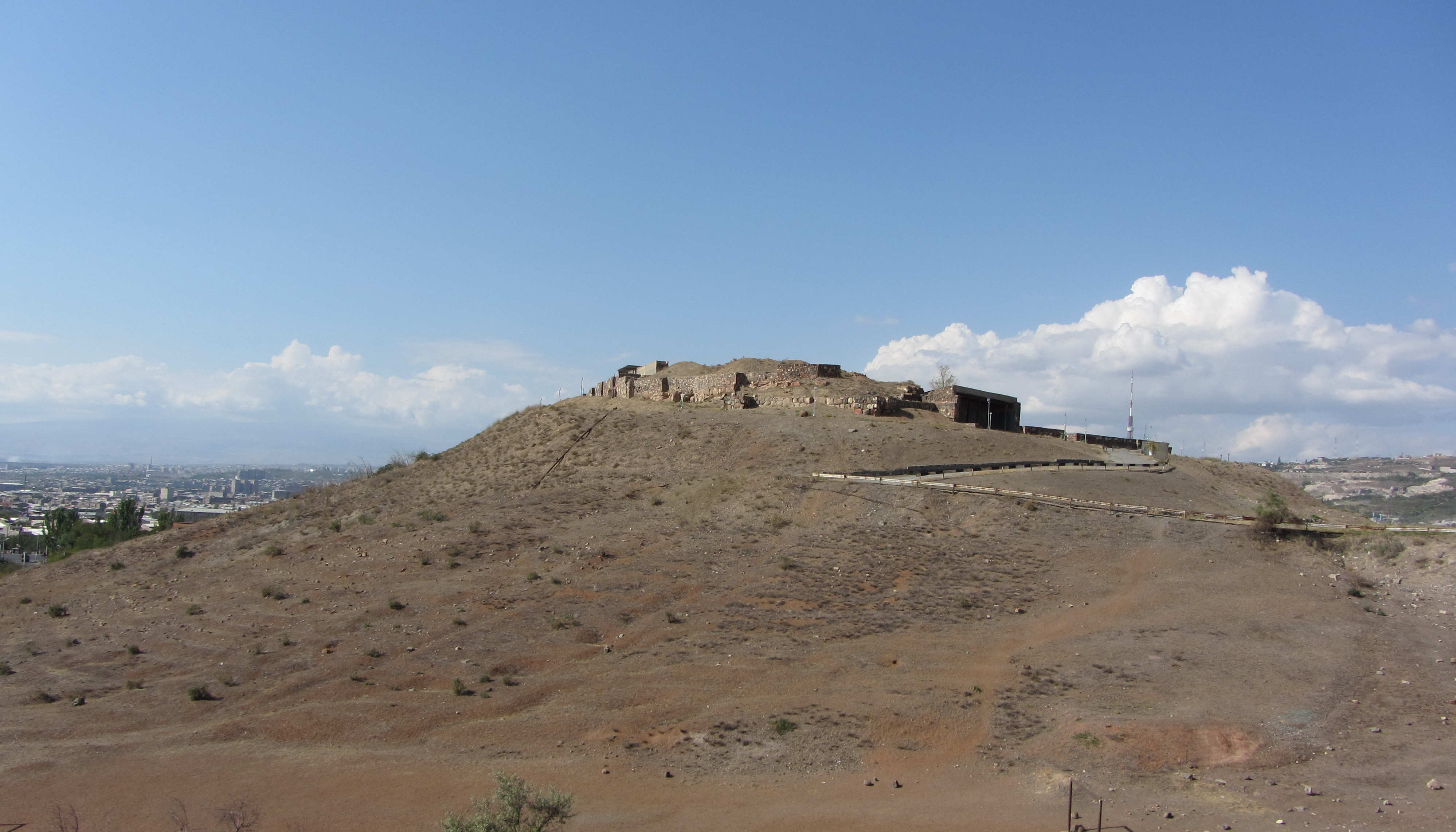 Urartian fortress Erebuni, 8c. BC, Yerevan, Armenia